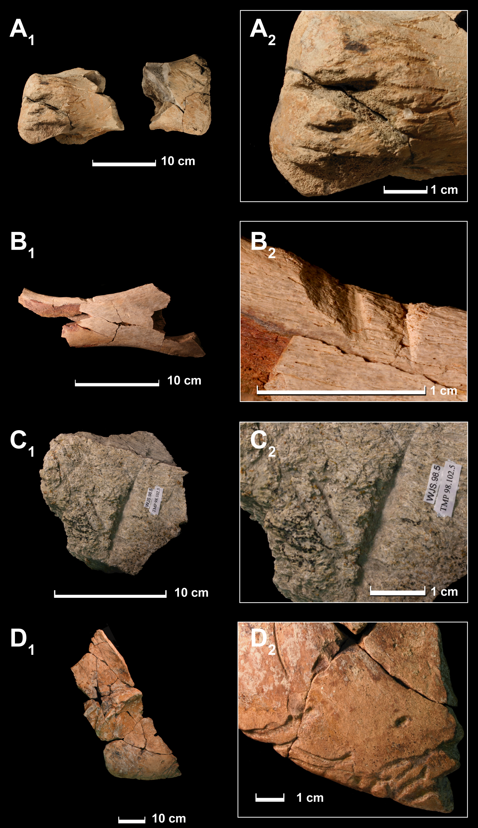 Tooth marks made by Tyrannosaurus rex. A, hadrosaurid metatarsal (UCMP uncatalogued) and closeup of tooth marks on distal articular surface. B, fragment of hadrosaurid pubis (CM 105) showing tooth marks on prepubic process. C, ceratopsid? frill element (TMP 1998.102.2) showing tooth mark. D, Triceratops right squamosal (YPM 53263) showing tooth marks on edge.